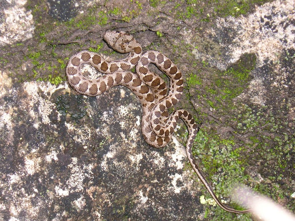 Coluber Nummifer. Kziv, Israel. February 2006.